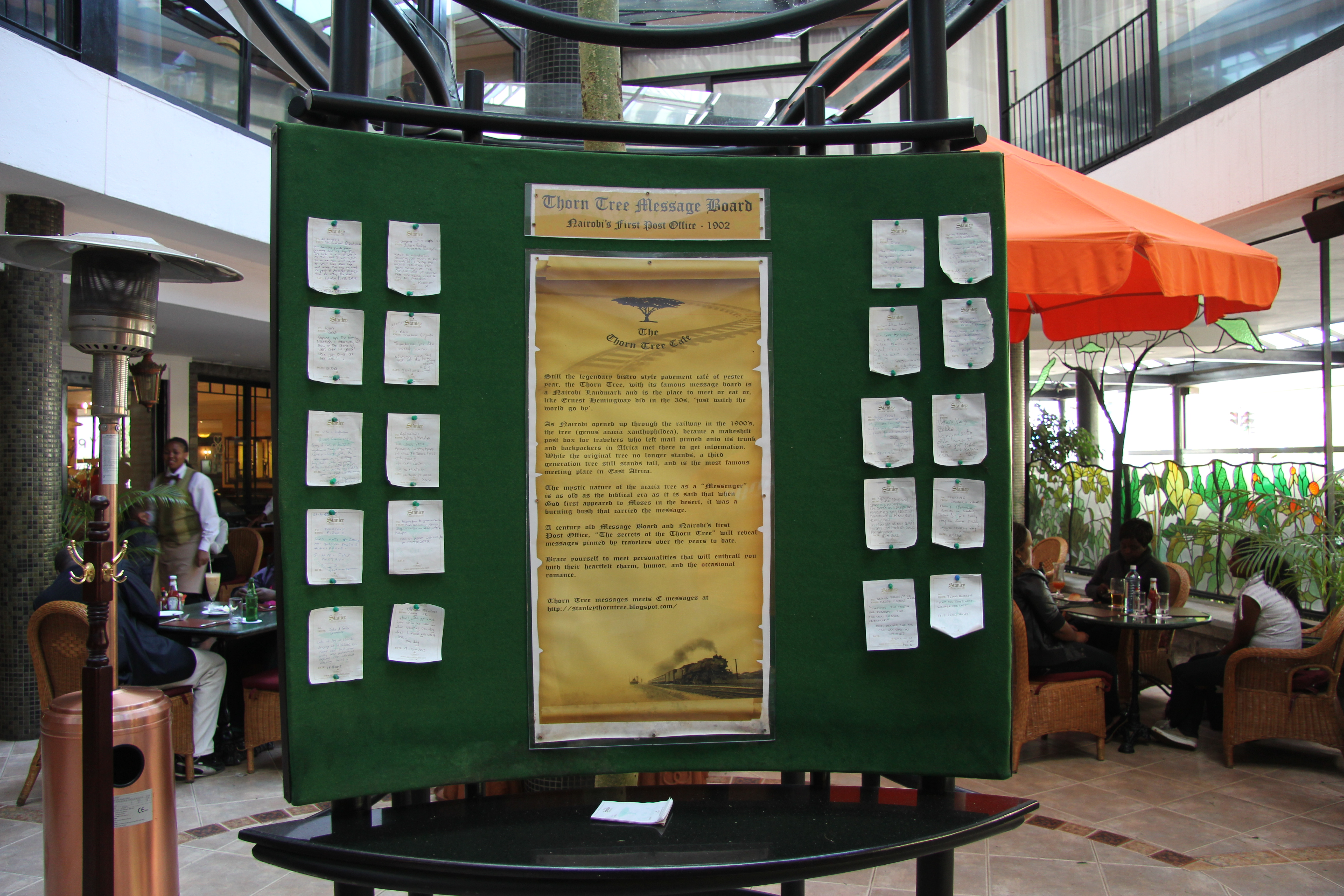 Thorn Tree Message Board